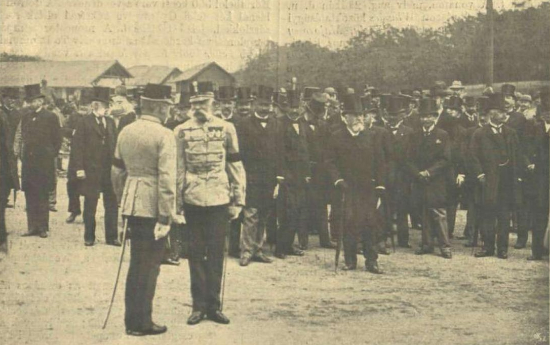 Franz Joseph as Hungarian king on the animal-market day of the Millennial exhimbition in Budapest